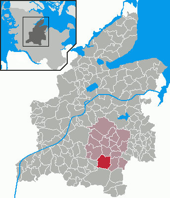 Locator maps of municipalities in Schleswig-Holstein - District Rendsburg-Eckernförde